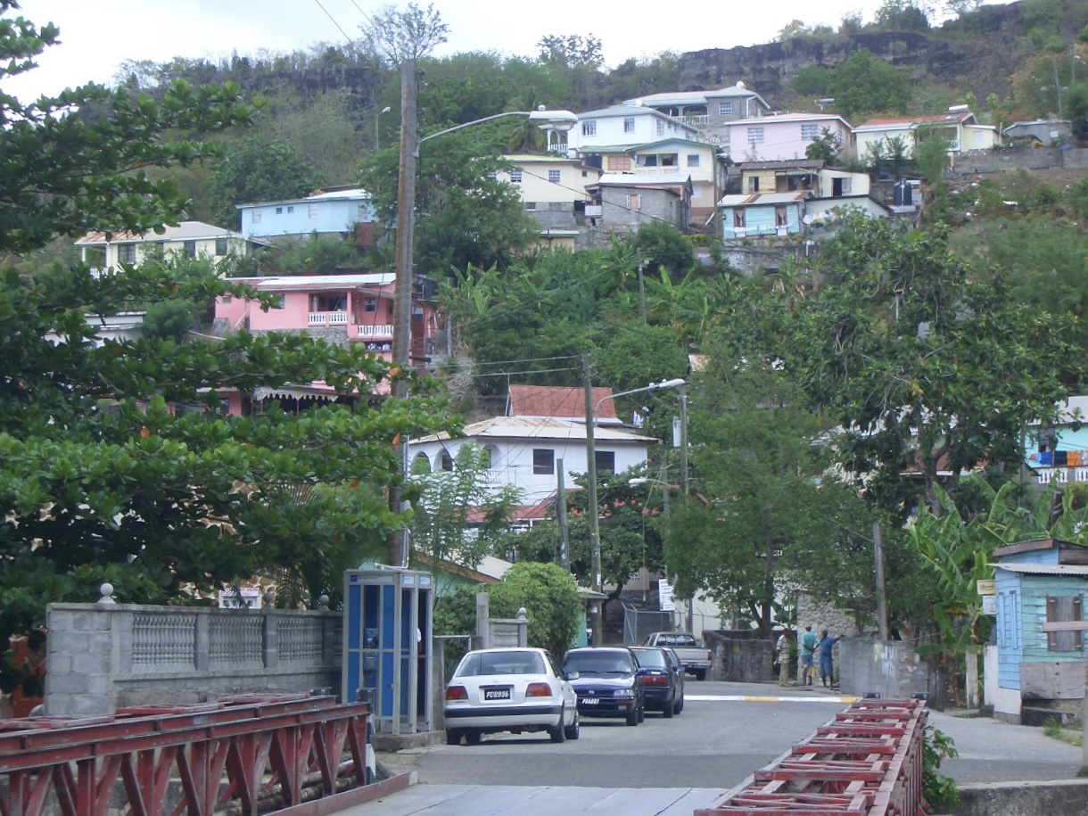 This photo is taken by Chensiyuan and shows the main road in Canaries, St Lucia